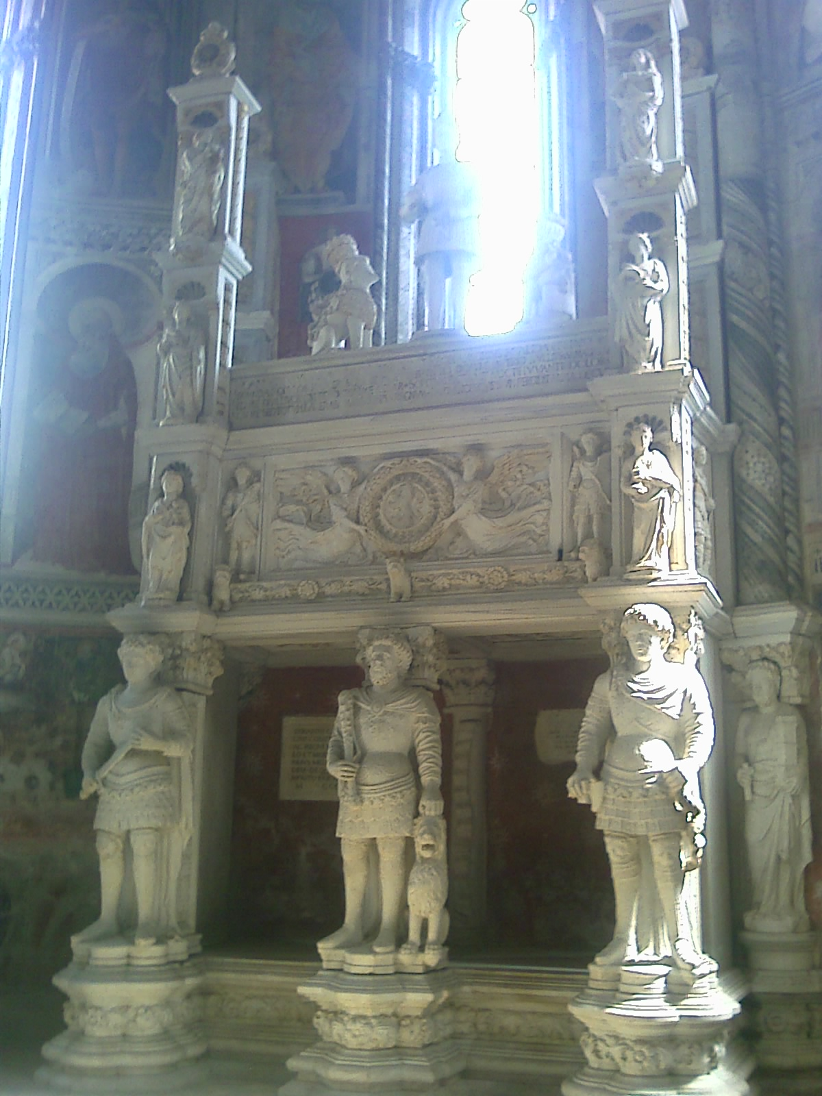 Ser Gianni Caracciolo's grave